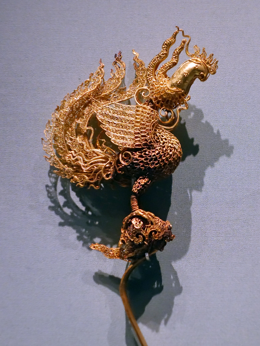 A very elaborate gold phoenix hairpin, one of the pair found in the tomb which belongs to the prince's wife, Lady Wei (魏氏). Ming dynasty.